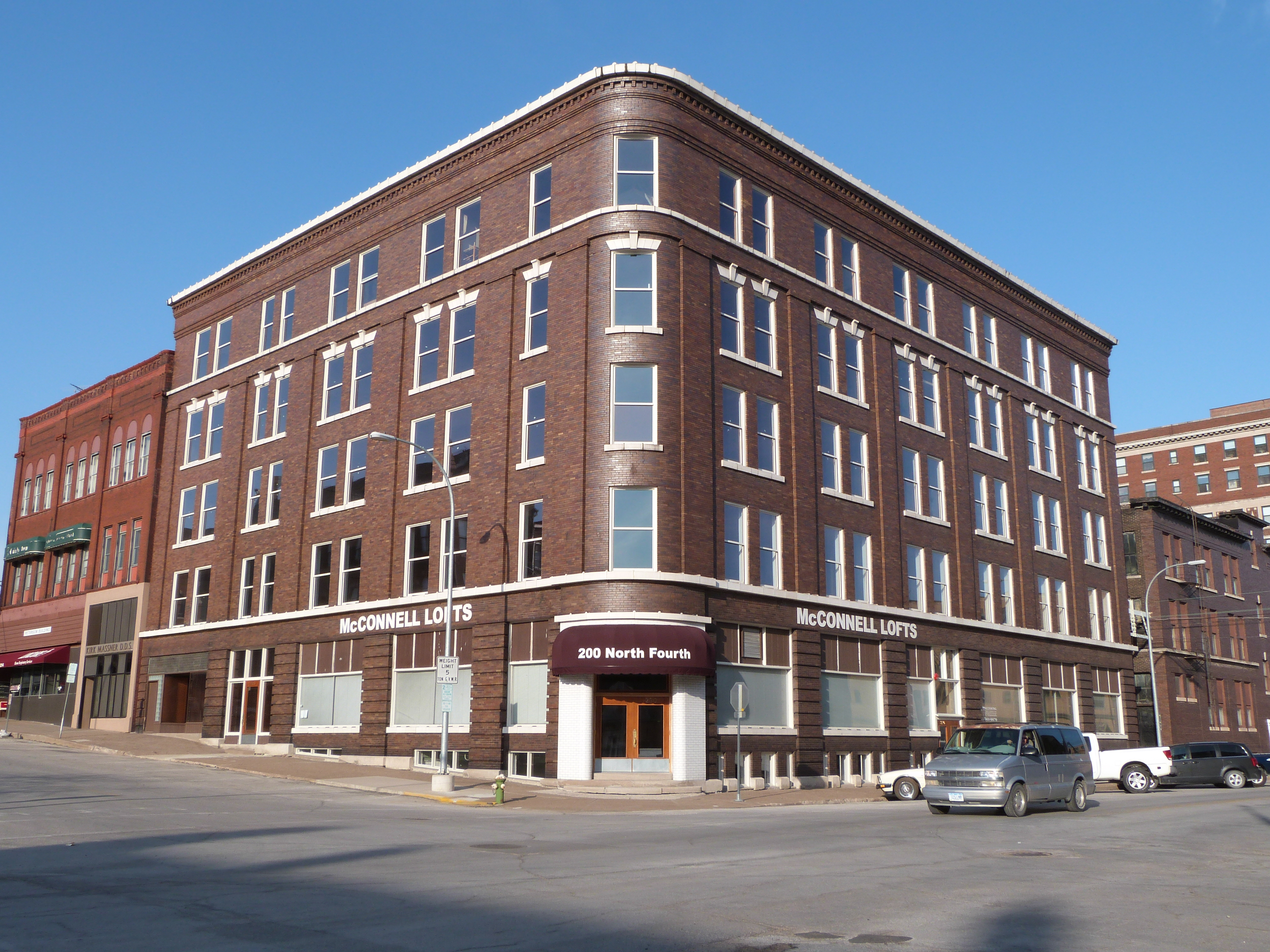 The S.R. and I.C. McConnell wholesale saddlery building (built 1907), located at 312-322 Valley Street in Burlington, Iowa, United States, is listed as a contributing resource within the Manufacturing and Wholesale Historic District. The historic district is listed on the US National Register of Historic Places.